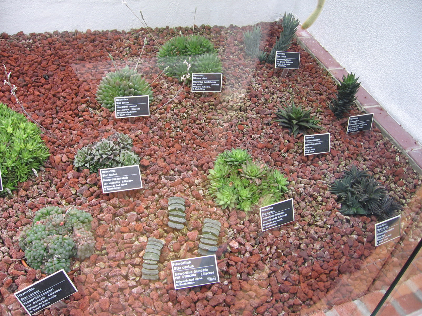 Haworthia spp., Jardin Botanique de Montréal from top to bottom (left to right) Haworthiopsis glauca Haworthia cymbiformis Haworthia cooperi Haworthiopsis coarctata Haworthiopsis limifolia Haworthia mirabilis Haworthia reticulata Haworthiopsis scabra Haworthia truncata Haworthia cooperi